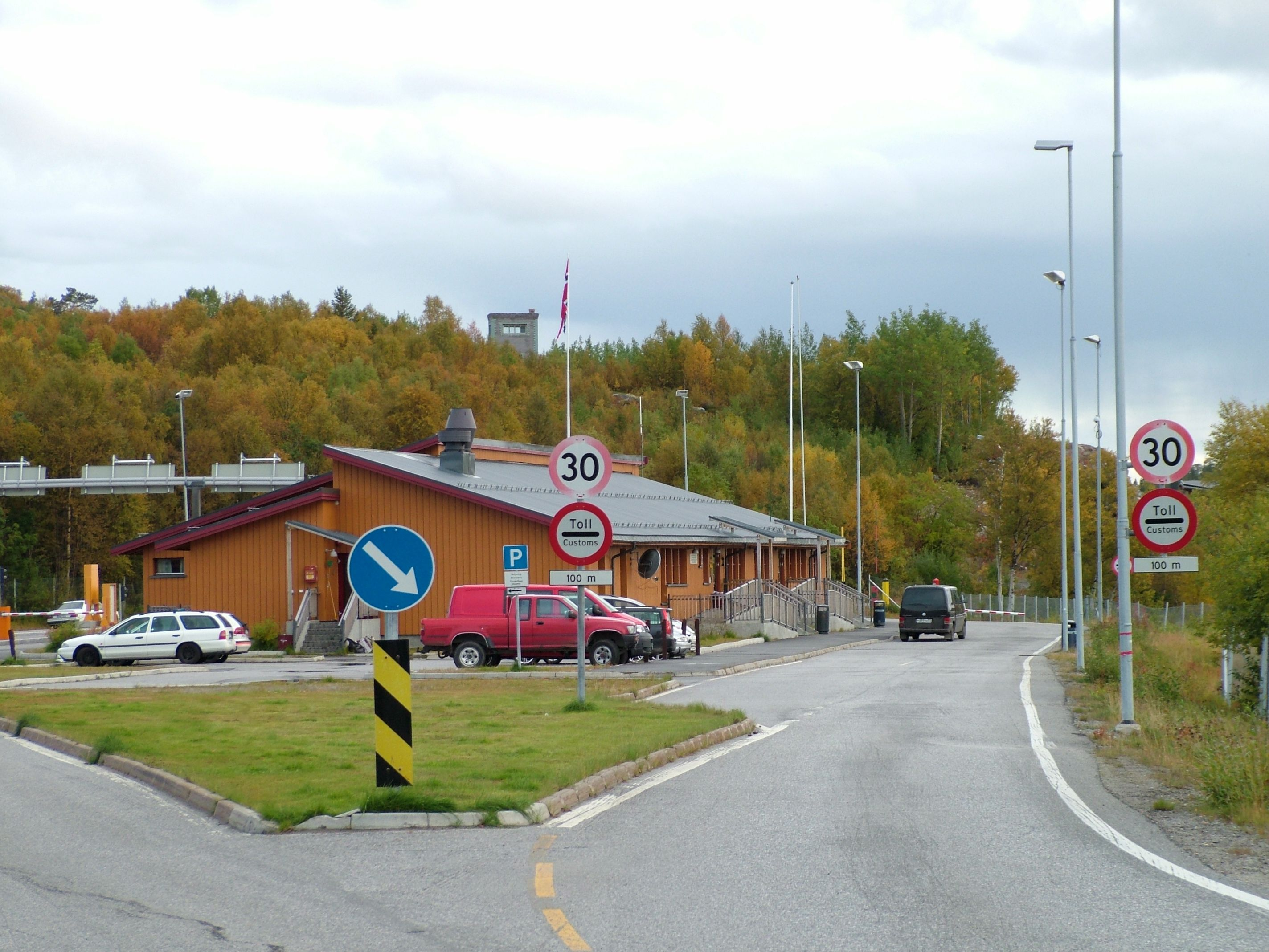 In Sør-Varanger, Northern Norway. At Storskog, the Norwegian-Russian border with the border crossing station.